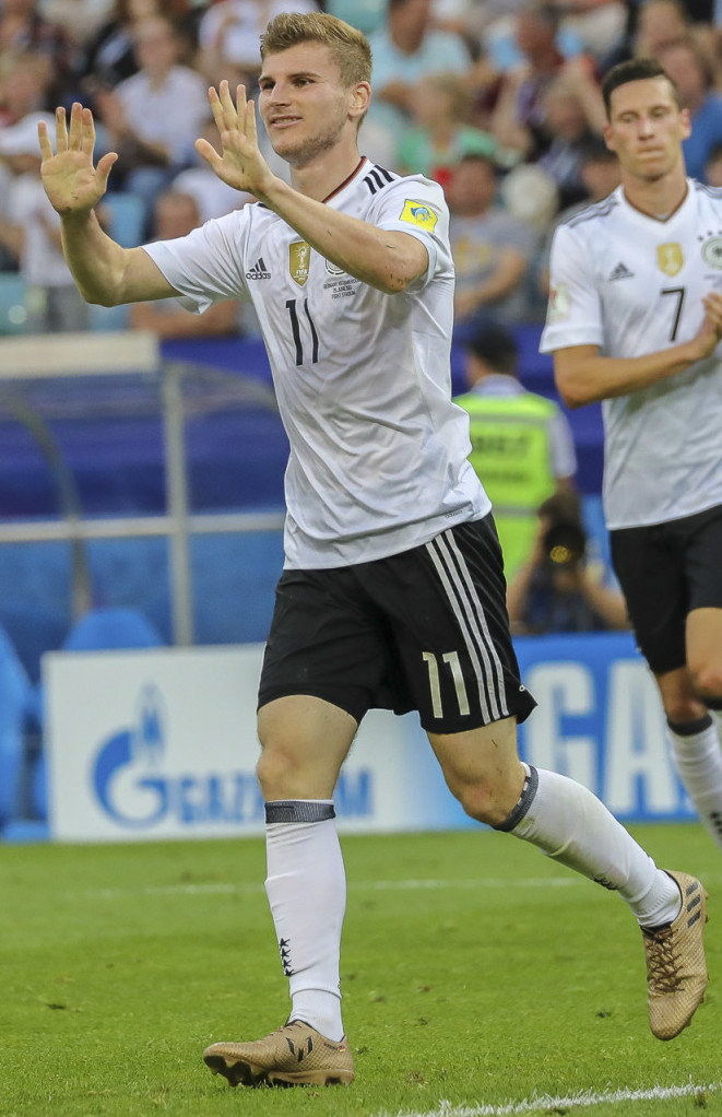 Germany VS. Cameroon 3 - 1, 25 June 2017